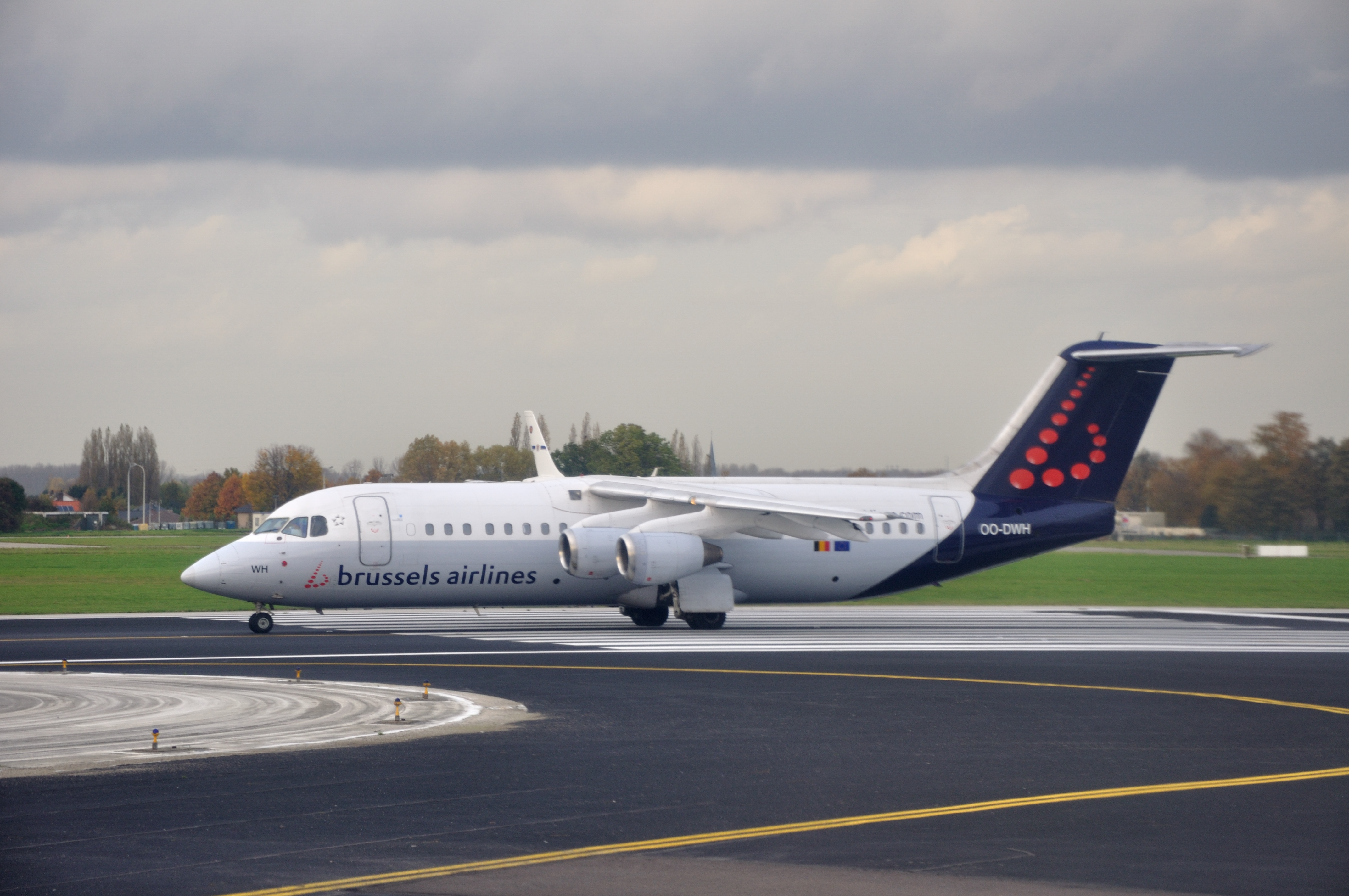 Belgium, Brussels Airlines Avro RJ100 OO-DWH lining up for take-off from runway 25R at Brussels Airport